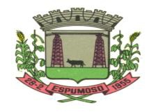 Coat of arms of the city of Espumoso, Rio Grande do Sul, Brazil.